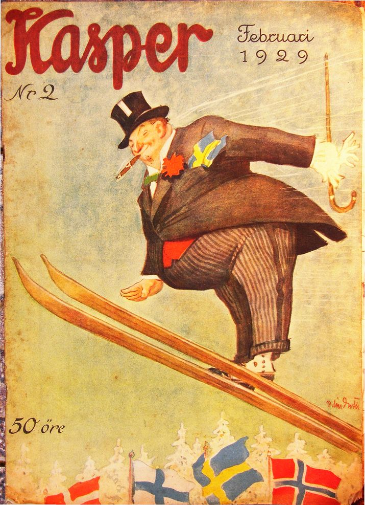 Kasper, a former Swedish humour magazine.